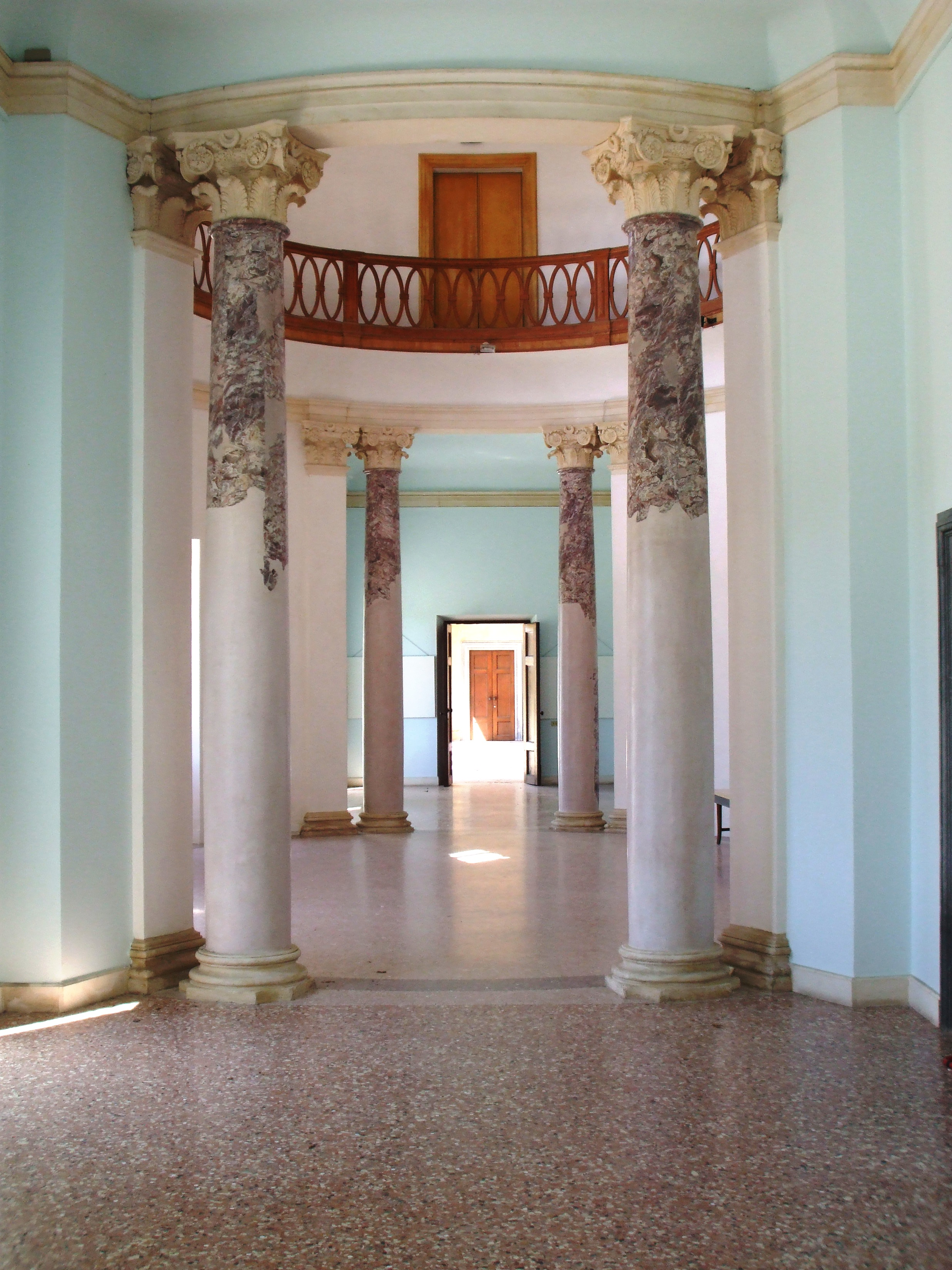 oval hall